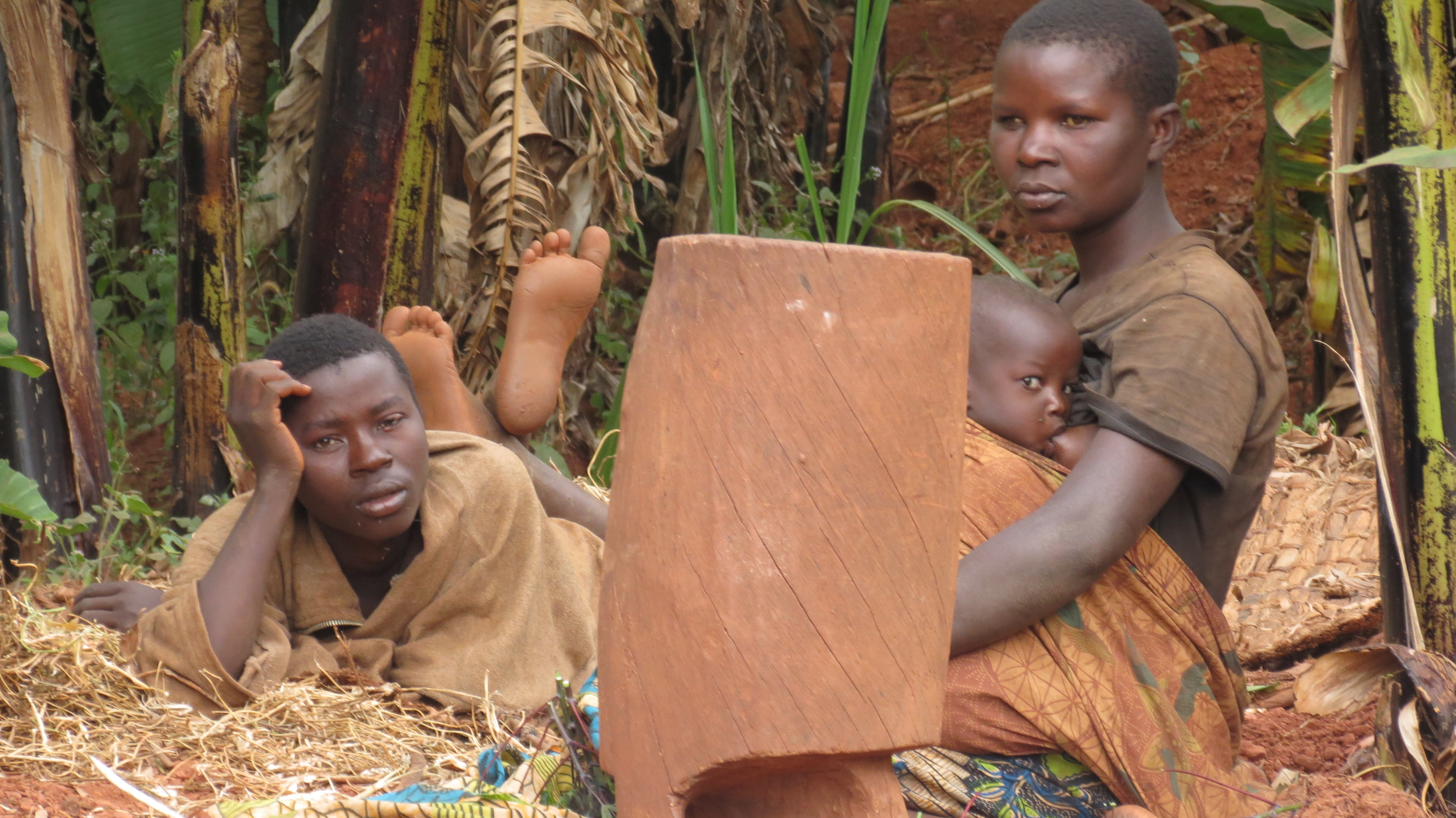 This is an image of "African people at work" from Burundi